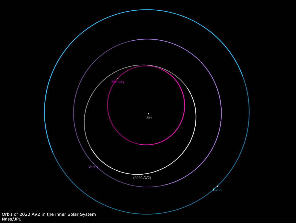 Polar view of the orbit of Vatira asteroid 2020 AV2, generated by the Jet Propulsion Laboratory's JPL Small-Body Database Browser.